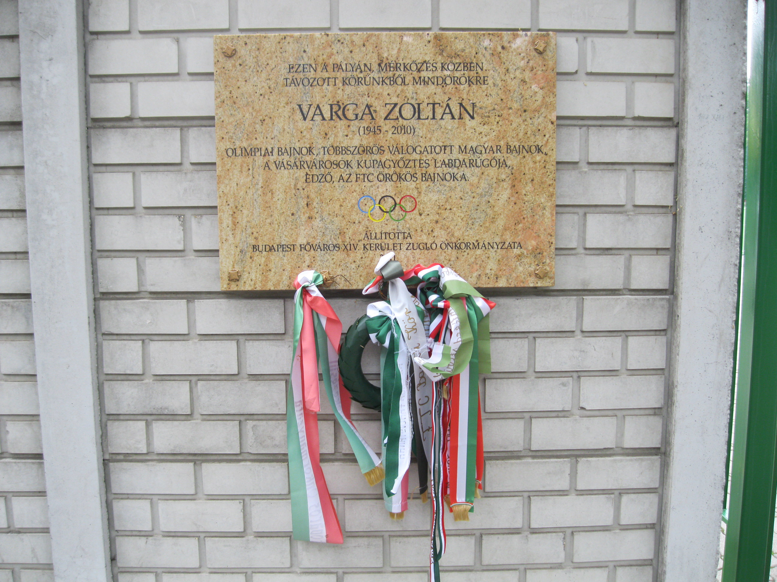 Commemorative plaque to Zoltán Varga (1945-2010) in Budapest District XIV, Kövér Lajos Street No 5